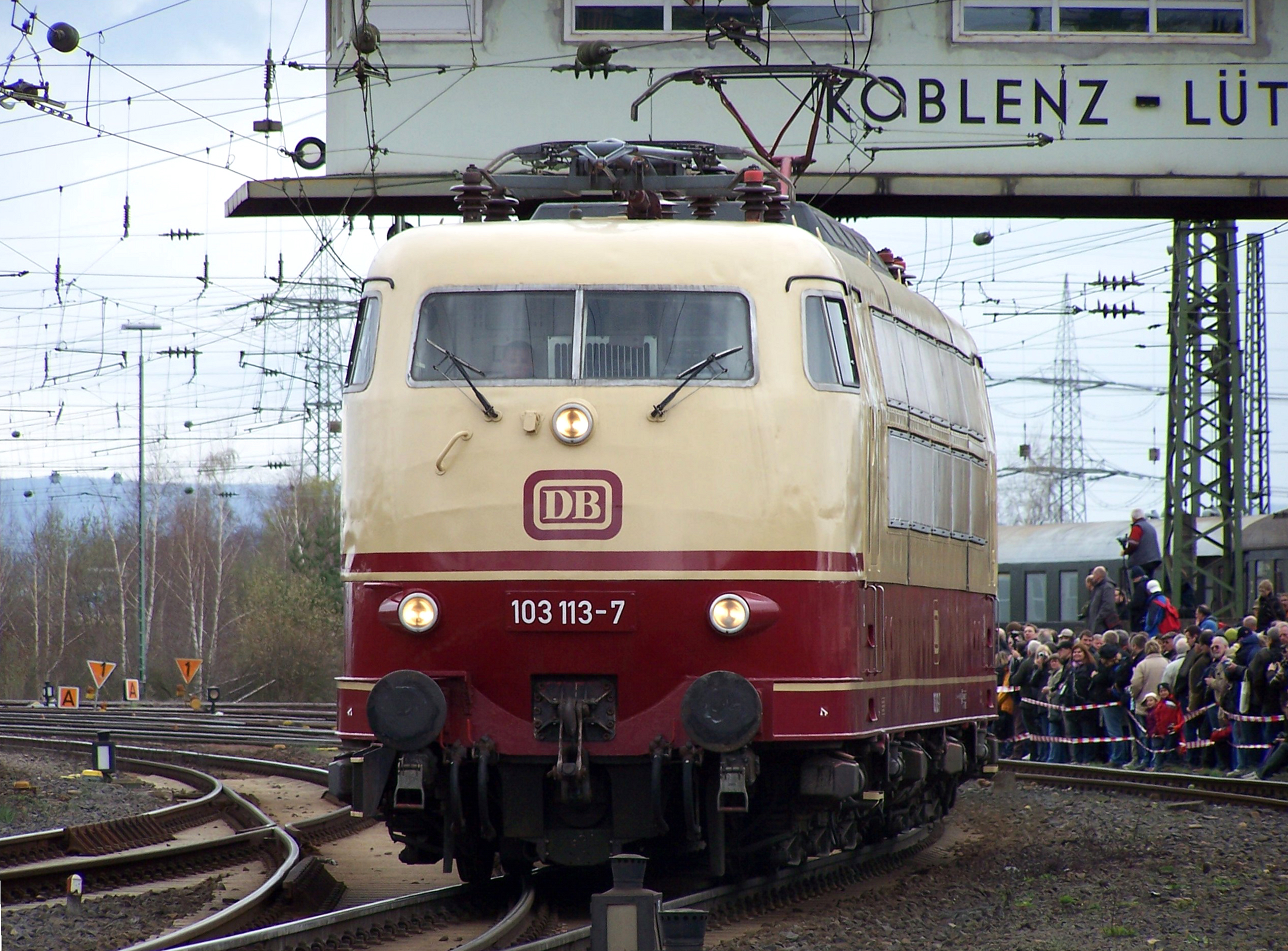 Electric locomotive 103 113 during a locomotive parade at the DB Museum in Koblenz-Lützel, a local branch of the Transport Museum in Nuremberg.